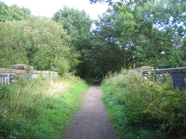 Kenilworth Junction - Berkswell railway Line. Seen here at the bridge crossing Crackley Lane, the course of this line has been preserved because there have been various schemes to re-instate it in recent years. Currently it forms part of the Coventry Way public footpath.